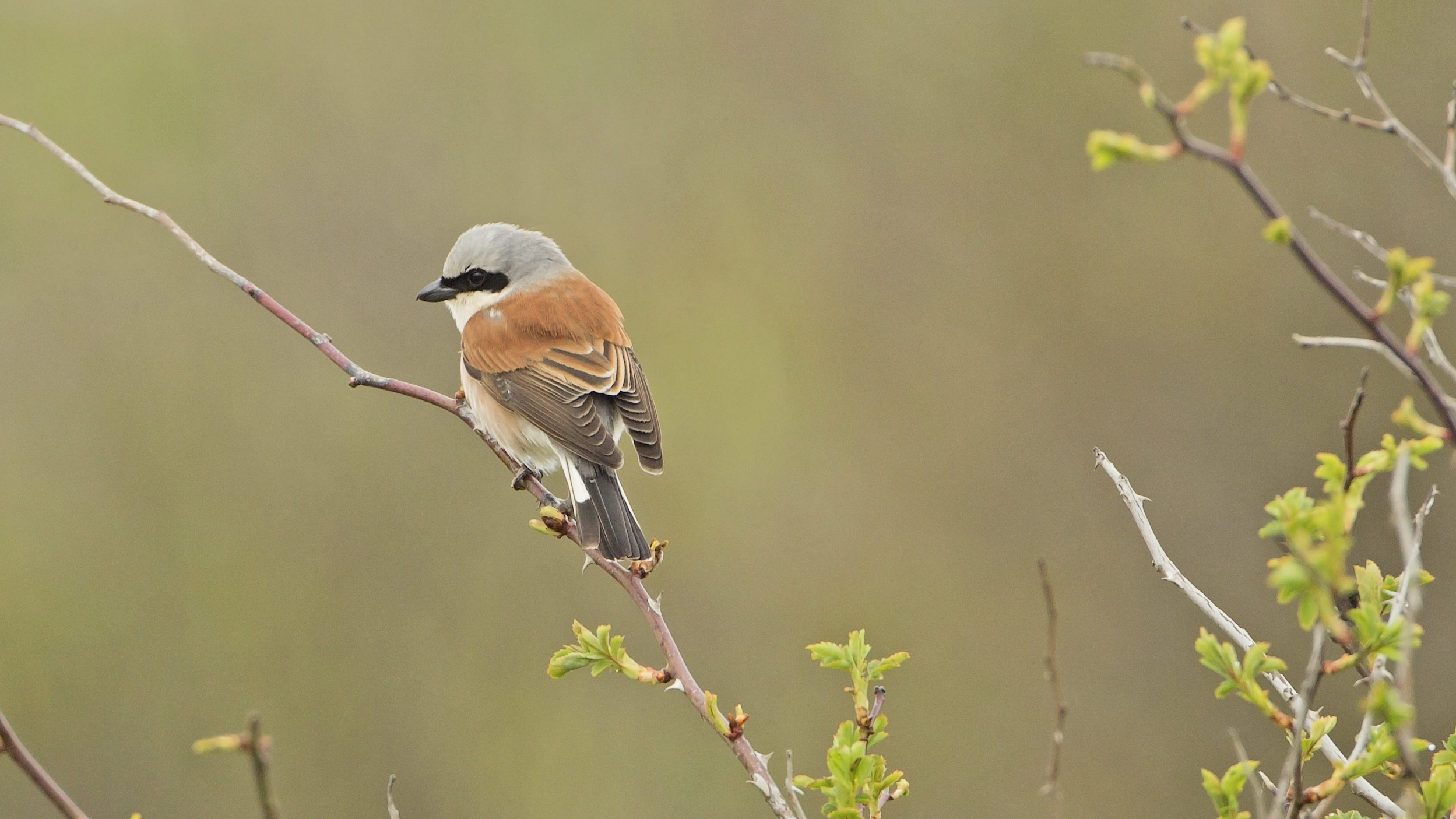 Red-backed Shrike